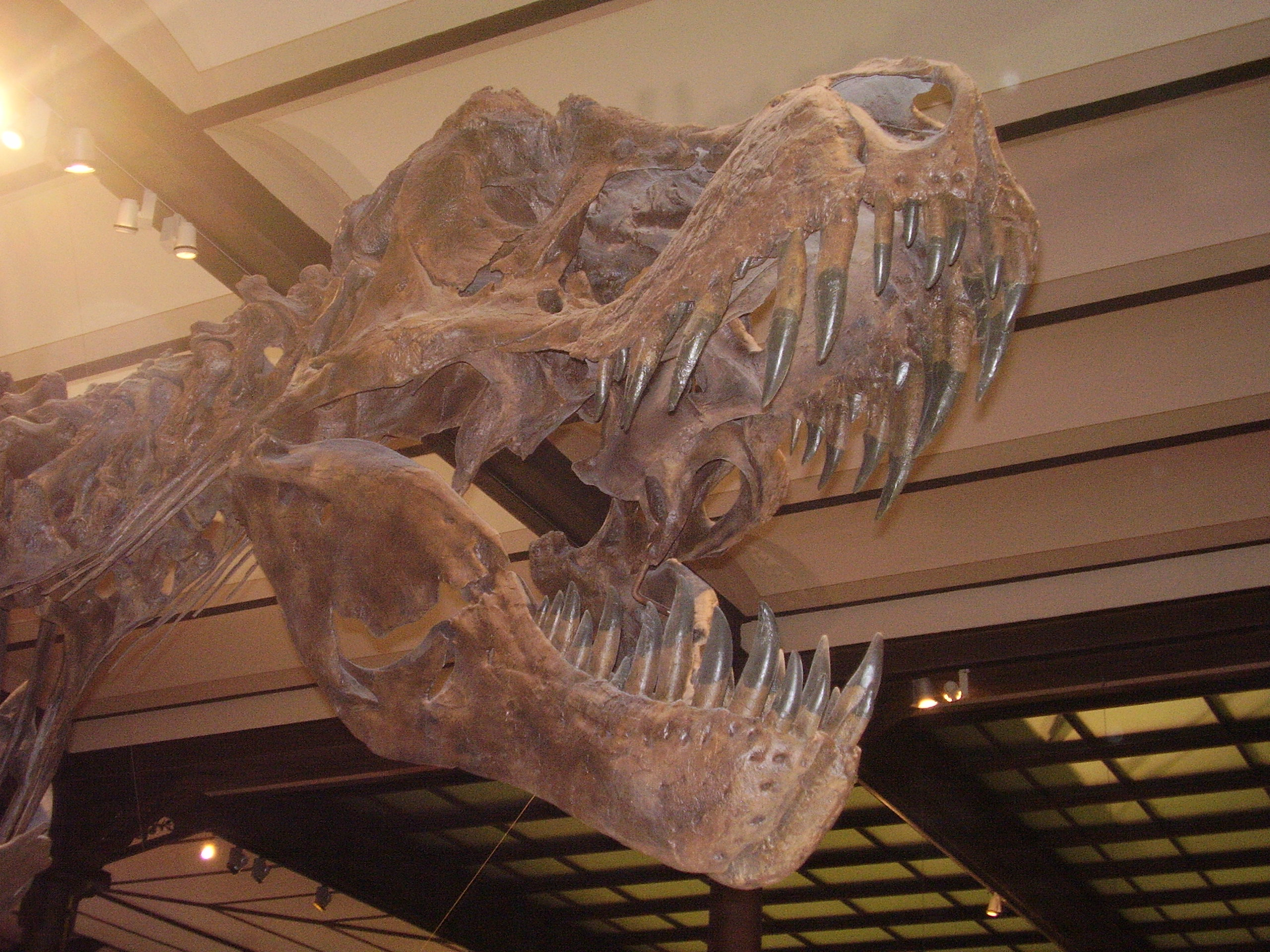 Skull of the T. rex "Stan", Natural History museum in Brussels.